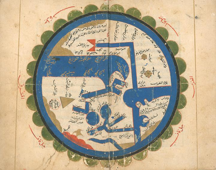 Ibn al-Wardi's map of the world.